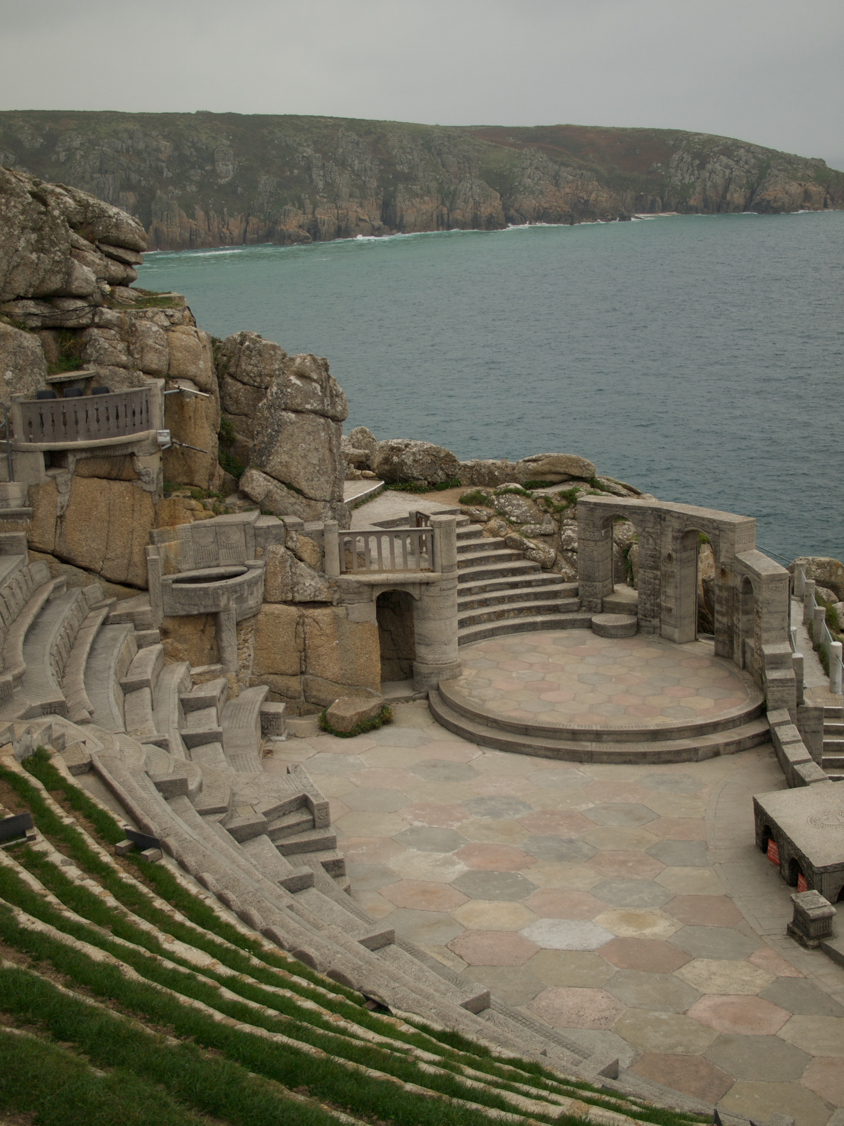 Minack Theatre